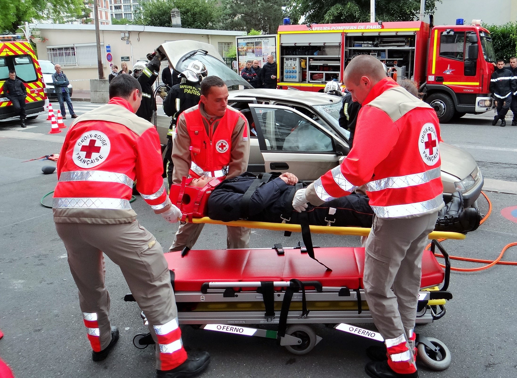 rescue demonstration to victim by the red cross, Montrouge, France